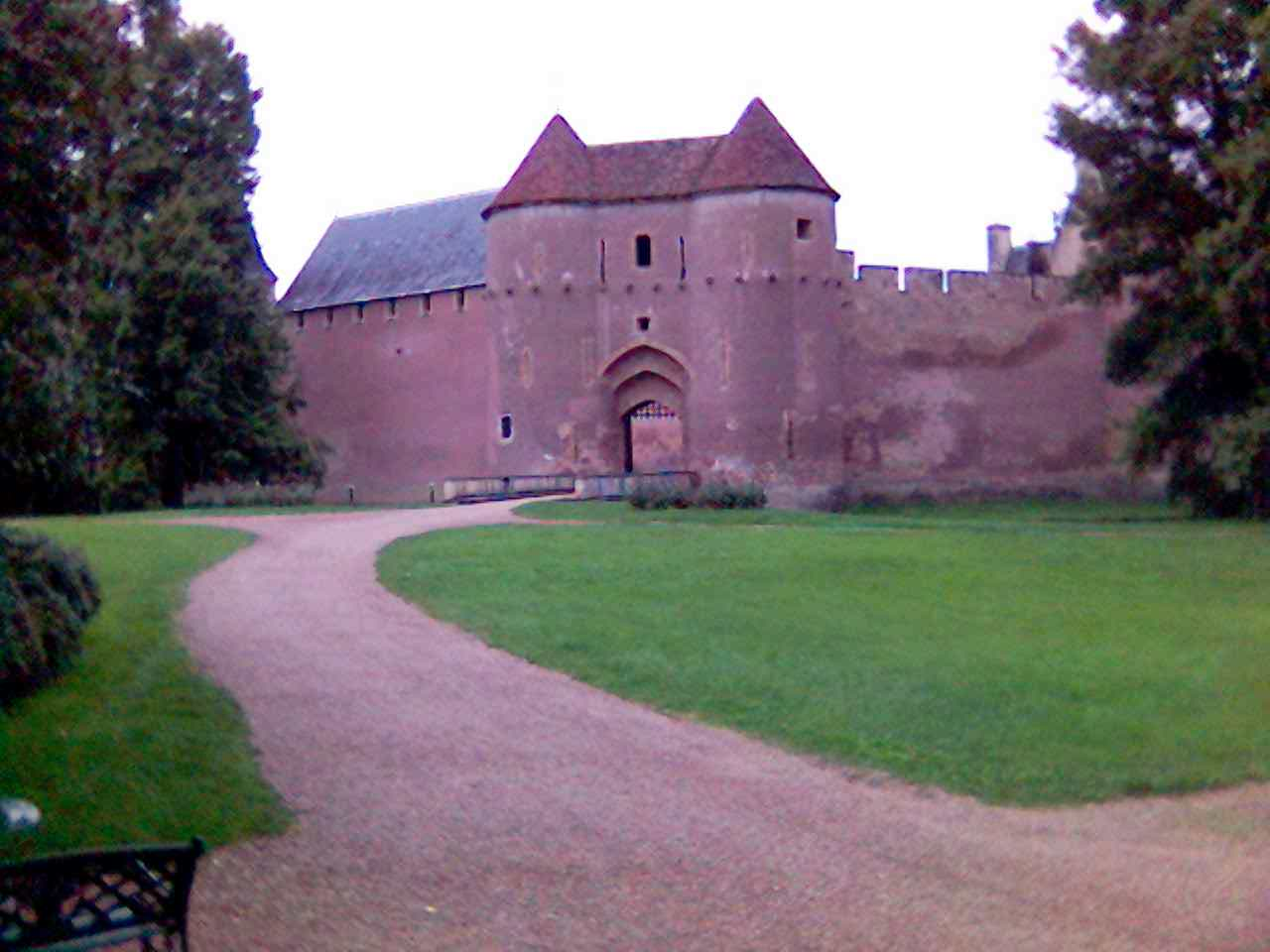 Ainay-le-Viel, ringmuren